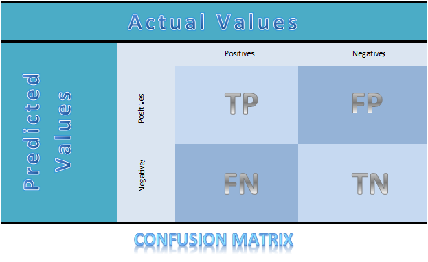 Confusion matrix or Contingency Table